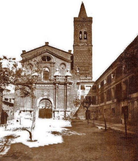 Church of San Martín de Tours, Belchite, Zaragoza, Spain, iglesia de San Martín de Tours - pueblo viejo de Belchite, Zaragoza